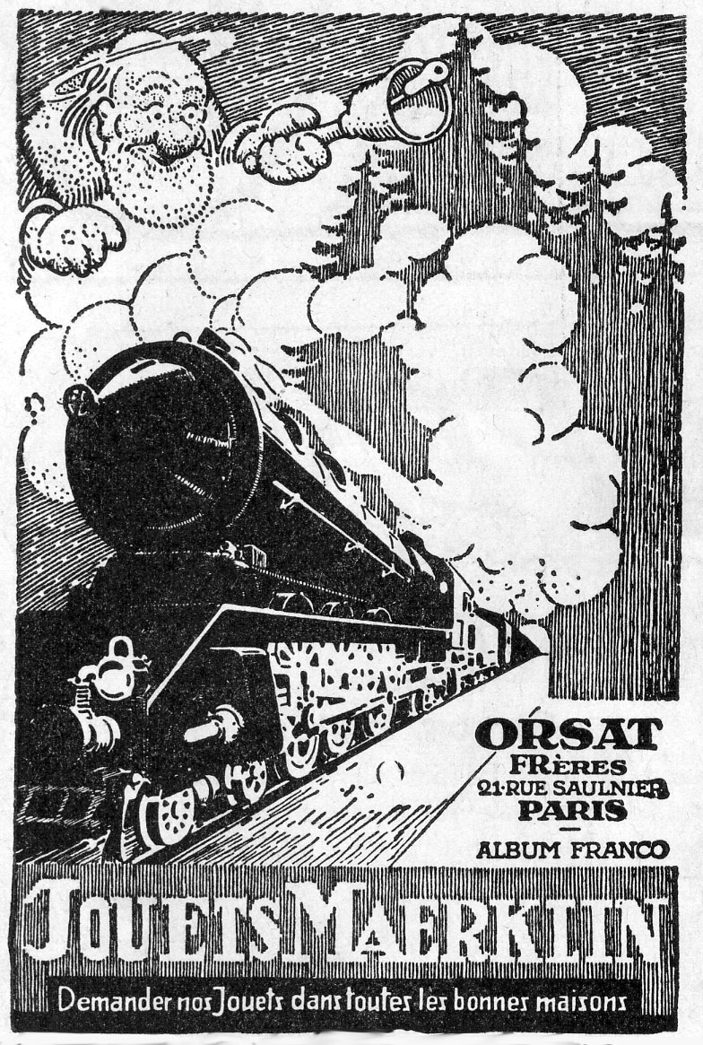 Maerklin toys advertisement of 1923